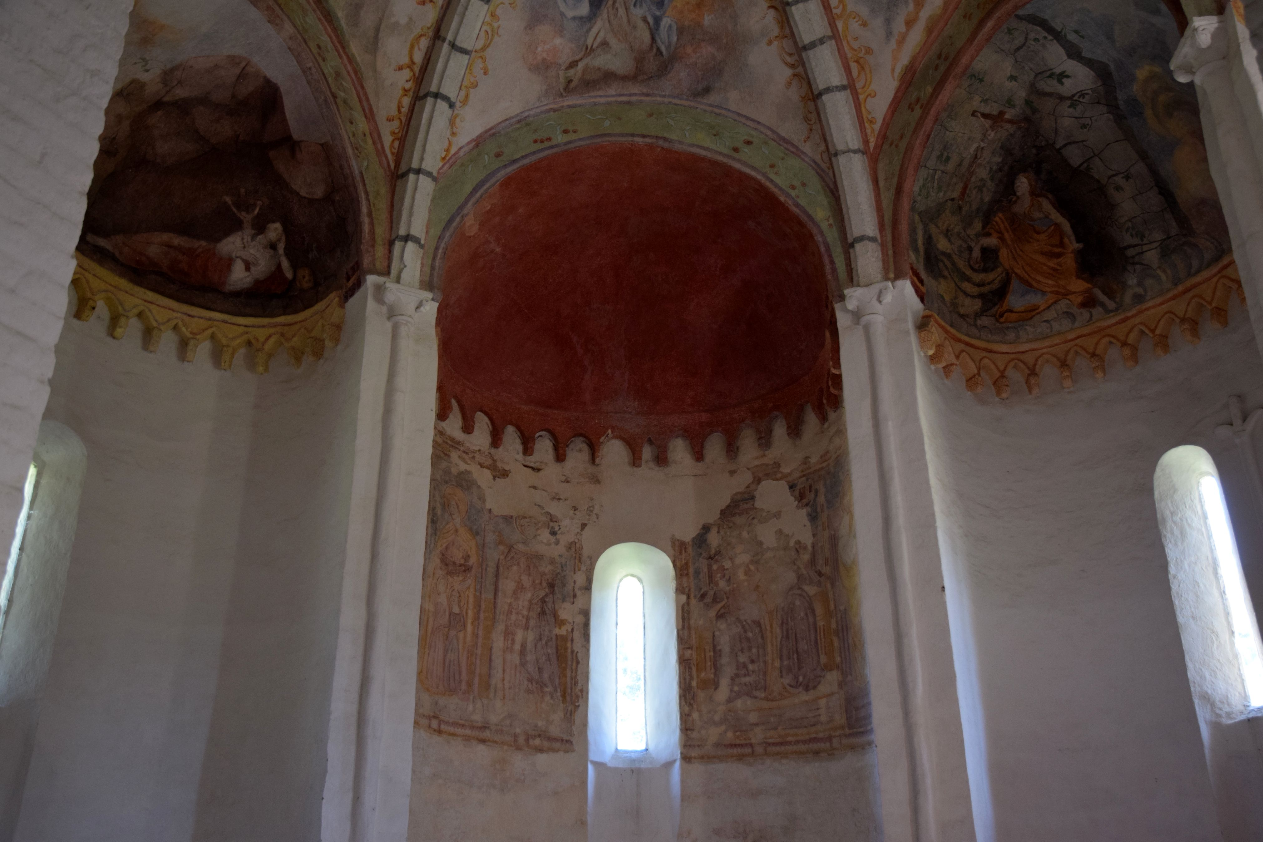 Kiszombor round church